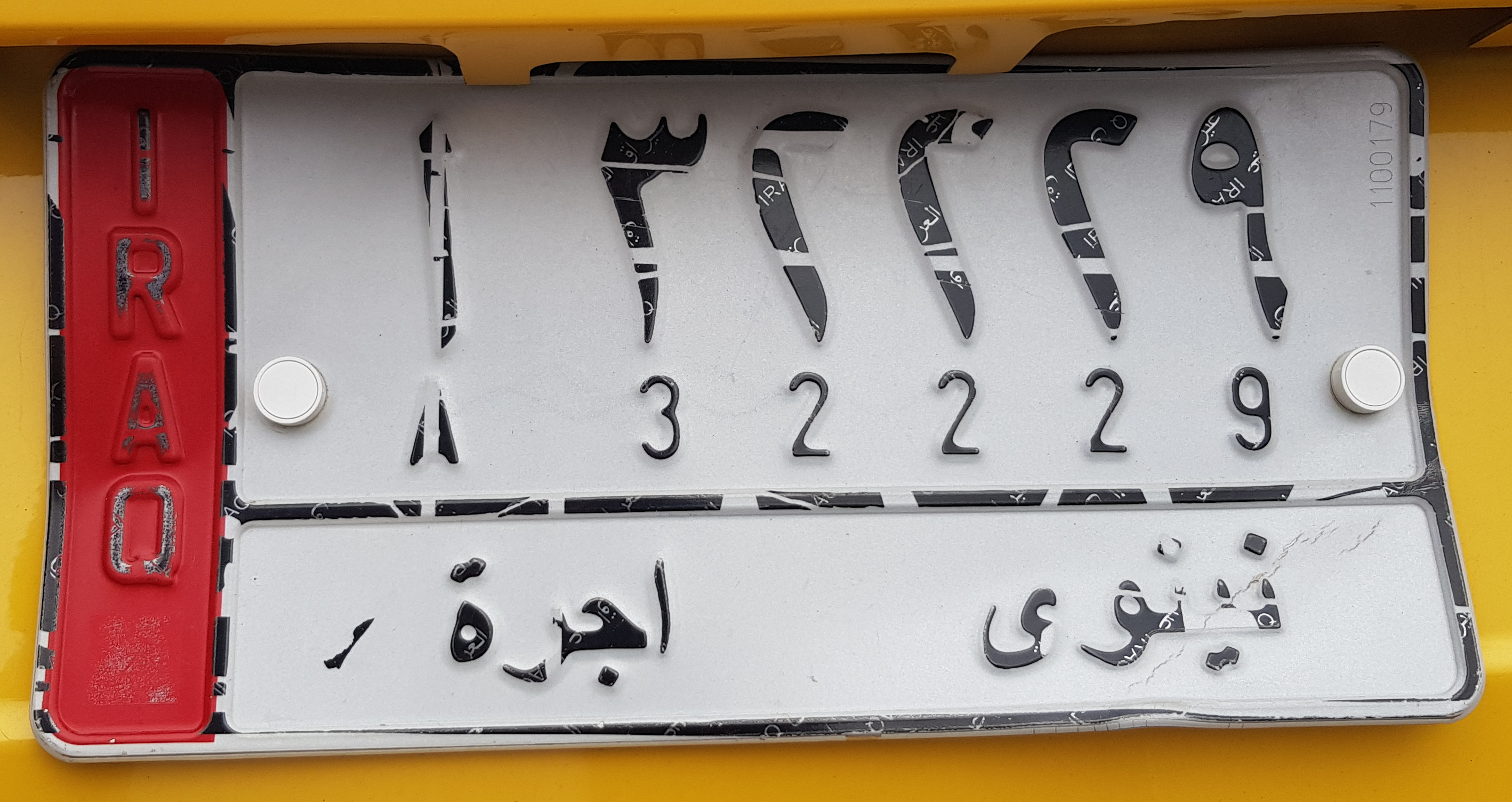 License plate of Iraq, the red colour of the section left indicates a registered taxi.